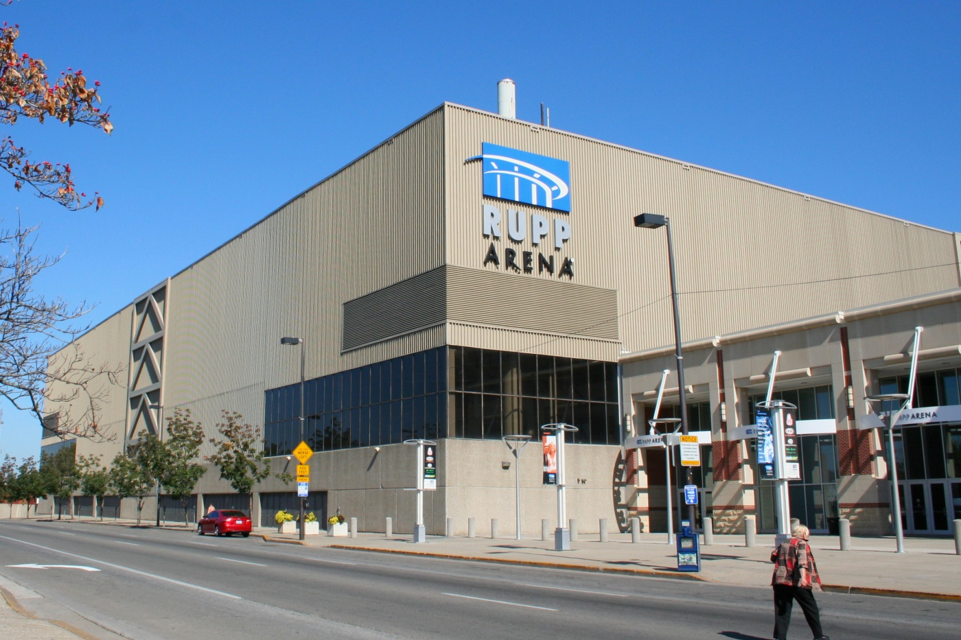 Rupp Arena facing High Street in Lexington, Kentucky.